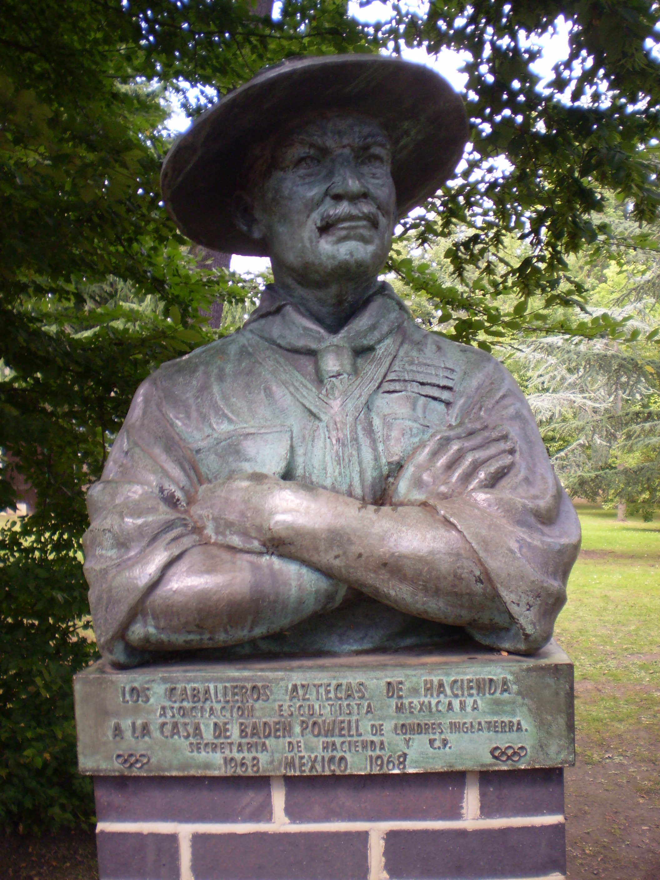 Gilwell Park Discovery at the 21st World Scout Jamboree: B.-P.'s bust